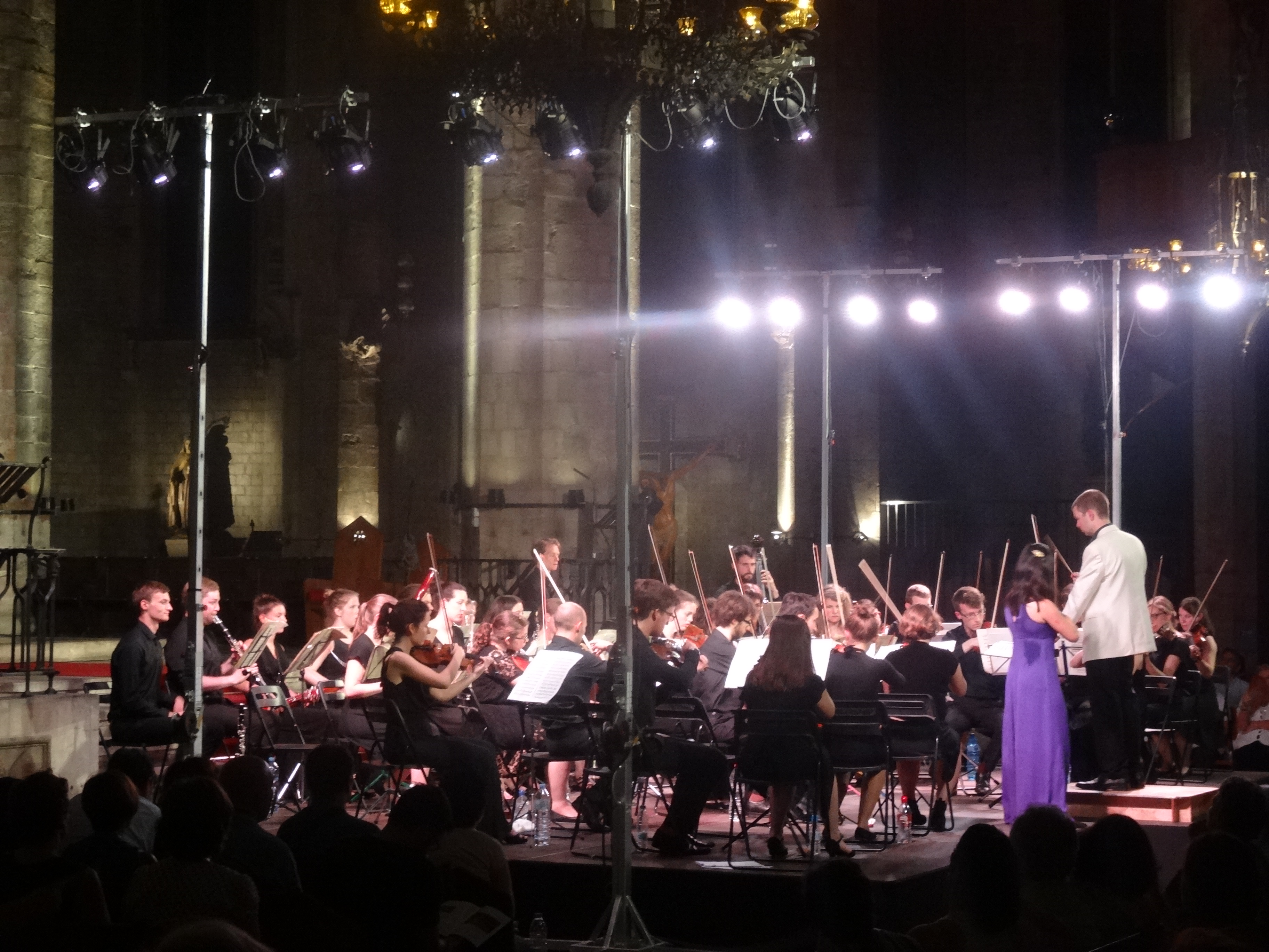 Concert of the Oxford Millennium Orchestra in Santa Maria del Mar, Barcelona. - Violinist Yuan Khong